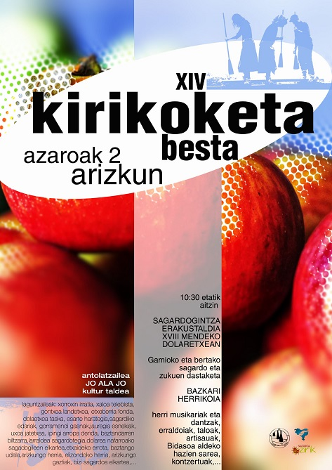 Kirikoketa festival in Arizkun, Navarre.